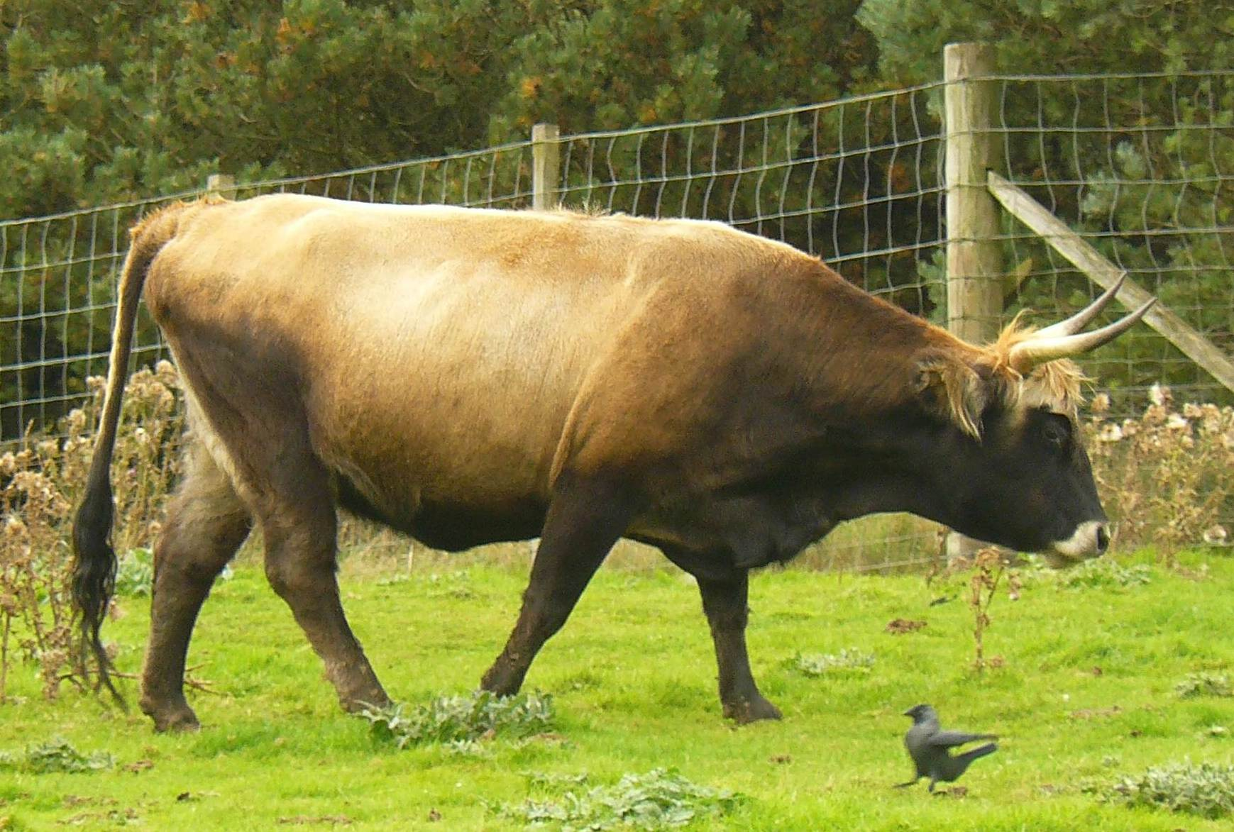 Heck cow (Bos primigenius taurus) at Edinburgh Zoo